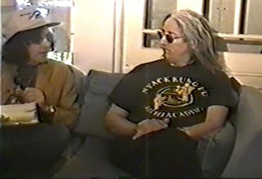 Isaac Bonewits (right) interviewed in "Mondo Pagan" June 1999 by Rock Savage at Camp Ramblewood.